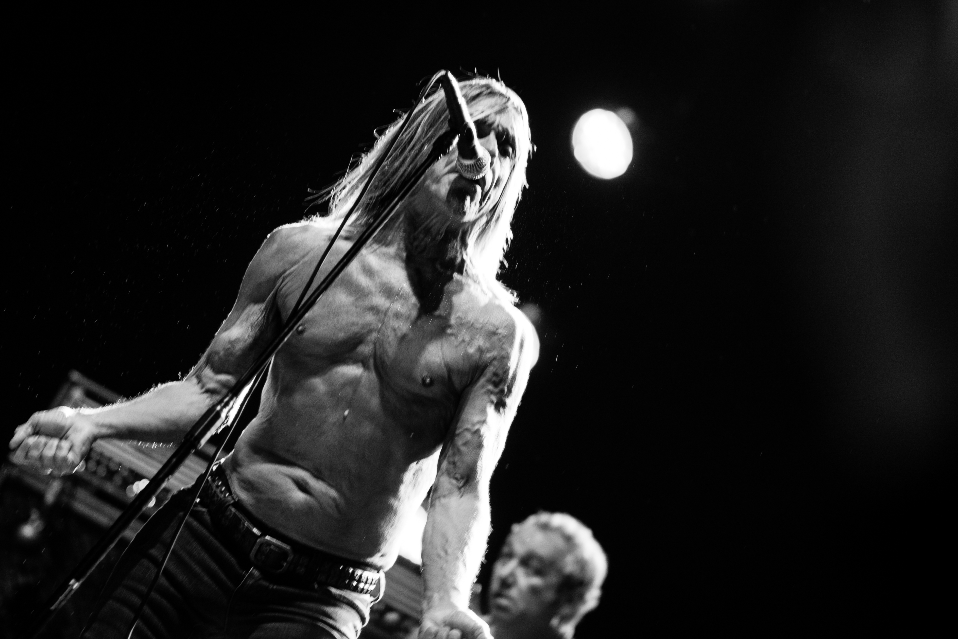 Iggy Pop Follow me on facebook Twitter : @didyPhotography All the photographies I've made are now under CC0 (Creative Commons Zero) CC0 - learn more To the extent possible under law, Eddy BERTHIER has waived all copyright and related or neighboring rights to Iggy And The Stooges @ Brussels Summer Festival 2012. This work is published from: France.